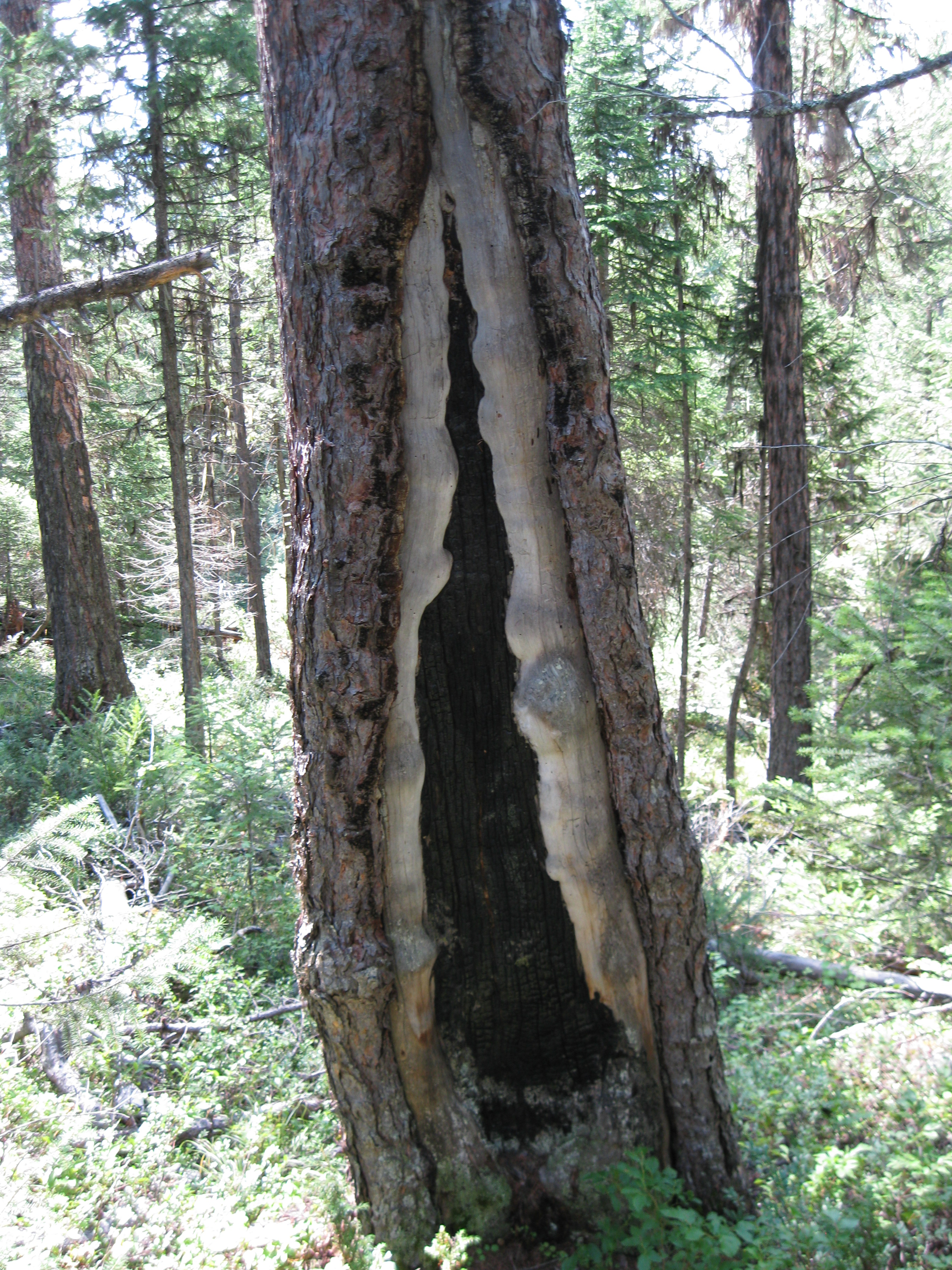 Pinus ponderosa. Fire plays an integral role in the vegetation on the Flathead National Forest. This trees lives on, even with a large fire scar like this. (cbd)